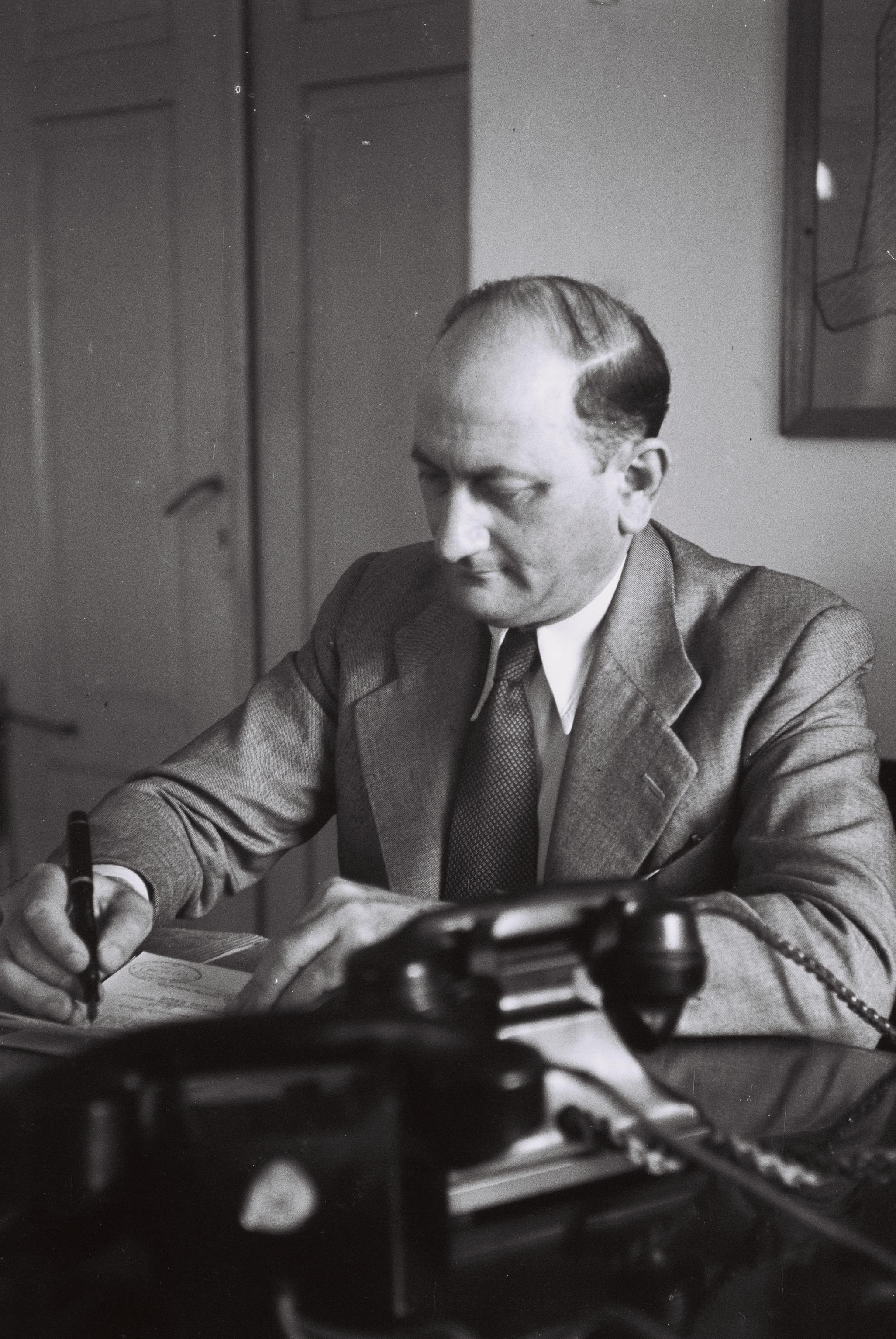 THE MAYOR OF PETAH TIKVA YOSEF SAPIR. ראש עיריית פתח תקוה, יוסף ספיר.